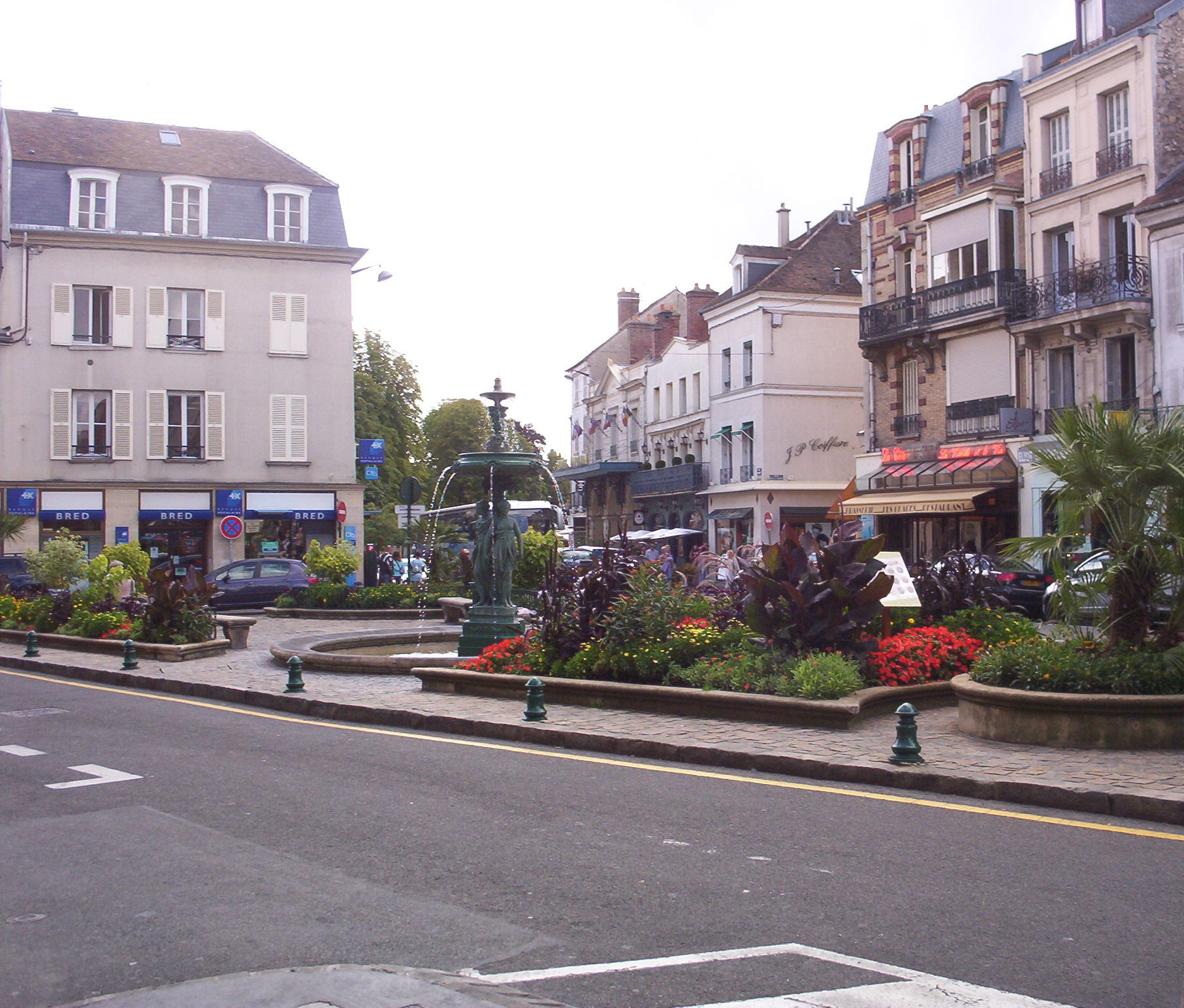 Square in the middle of Fontainebleau, near the château. Created by Connor Russell, August 2006.